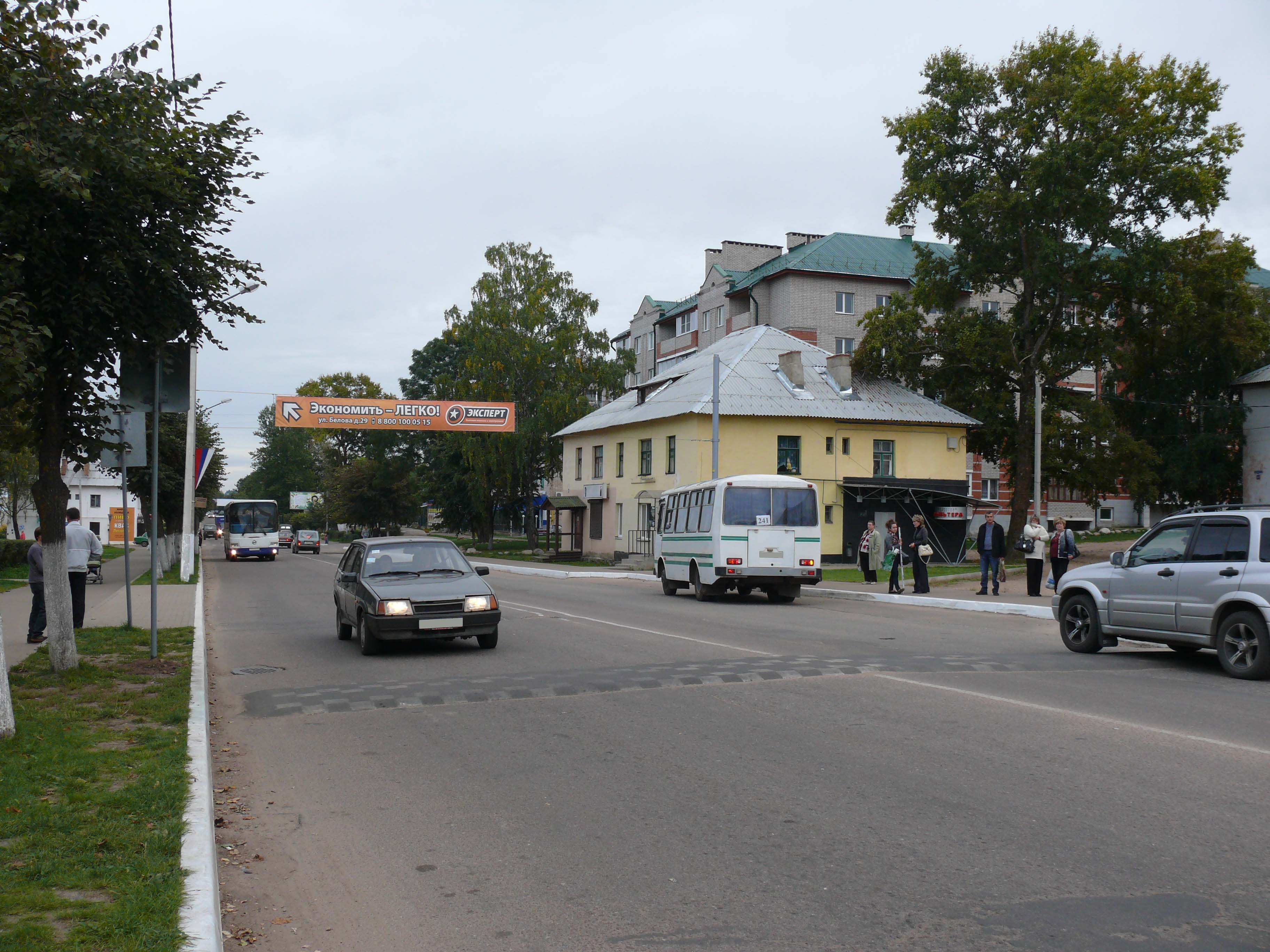 Komsomolskaya street in Valday, Novgorodskaya oblast Russia